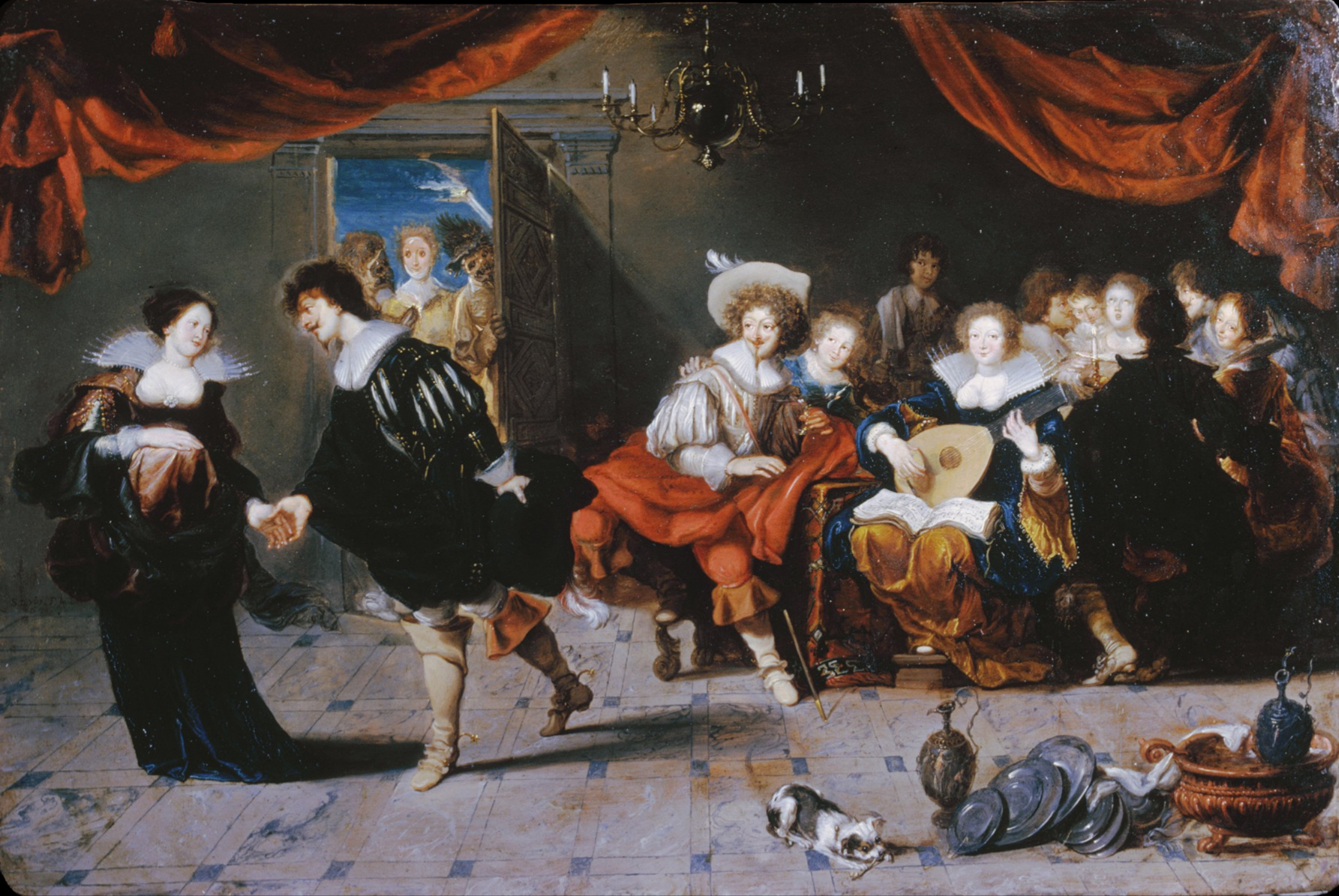 This party of fashionably dressed young people is interrupted by intruders with masks and a lighted torch suggesting that these revels take place during Carnival. Well-bred young ladies did not join parties in public inns; these smiling women are prostitutes. Women forced by poverty into prostitution had to rent such garments, as they themselves were rented. The lap dog gnawing a bone adds a crude but amusing counterpoint to the apparent elegance of the scene.